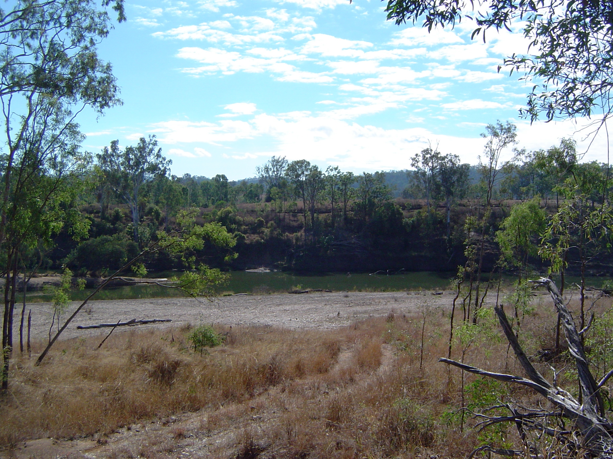 Photo of Brisbane River from Hills Crossing Reserve at Borallon, Somerset Region, Queensland, Australia.